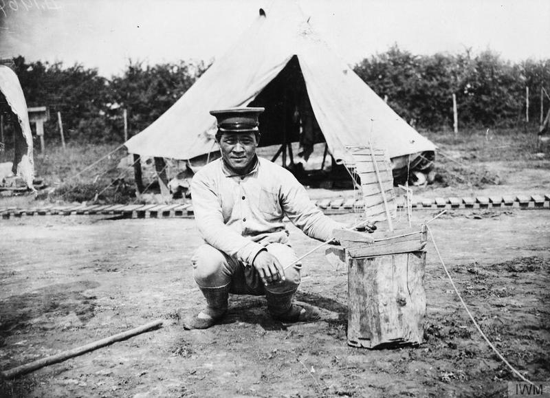 The Battle of Passchendaele, July-november 1917 A Chinese worker with a model junk at the Chinese Labour Corps Camp at Caestre, 14 July 1917.